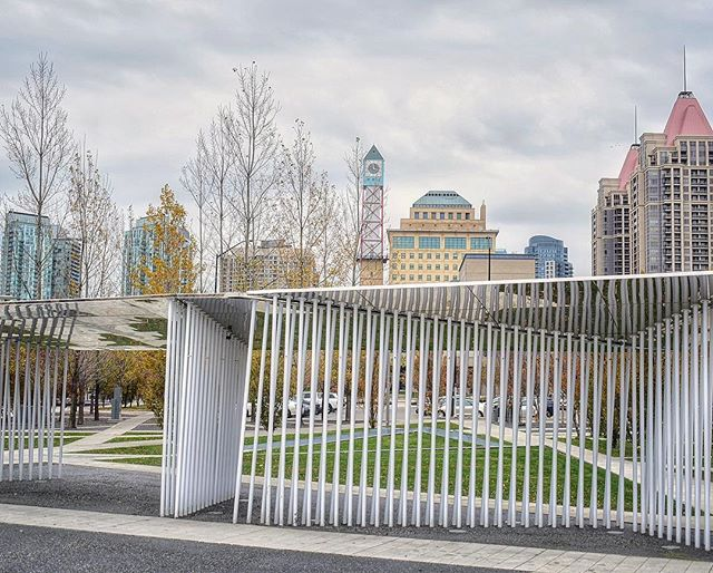 Scholars Green | The pavilion in Sheridan College’s